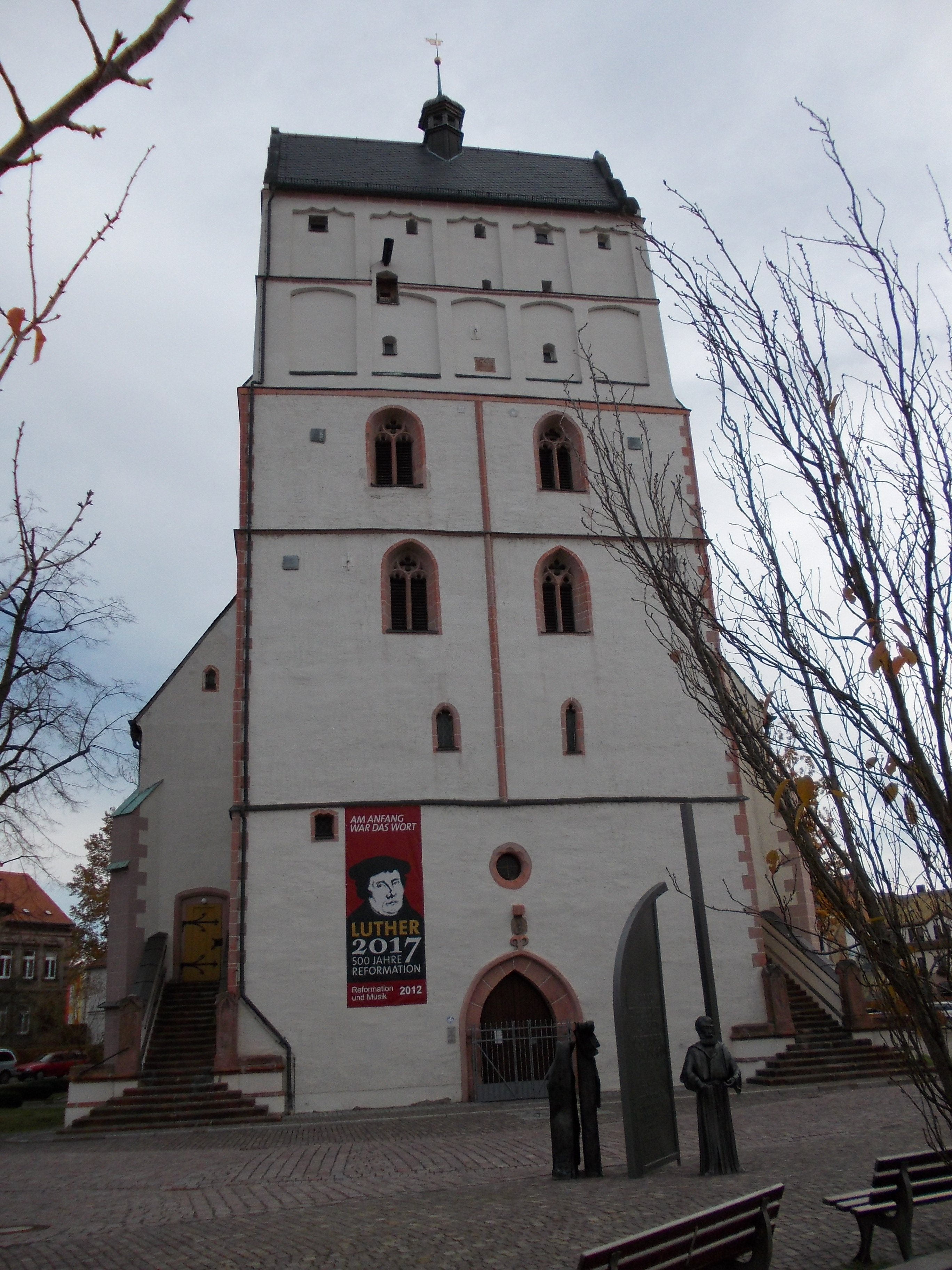 St. Mary's Church in Borna (Leipzig district, Saxony) with Martin Luther memorial by Hilko Schomerus